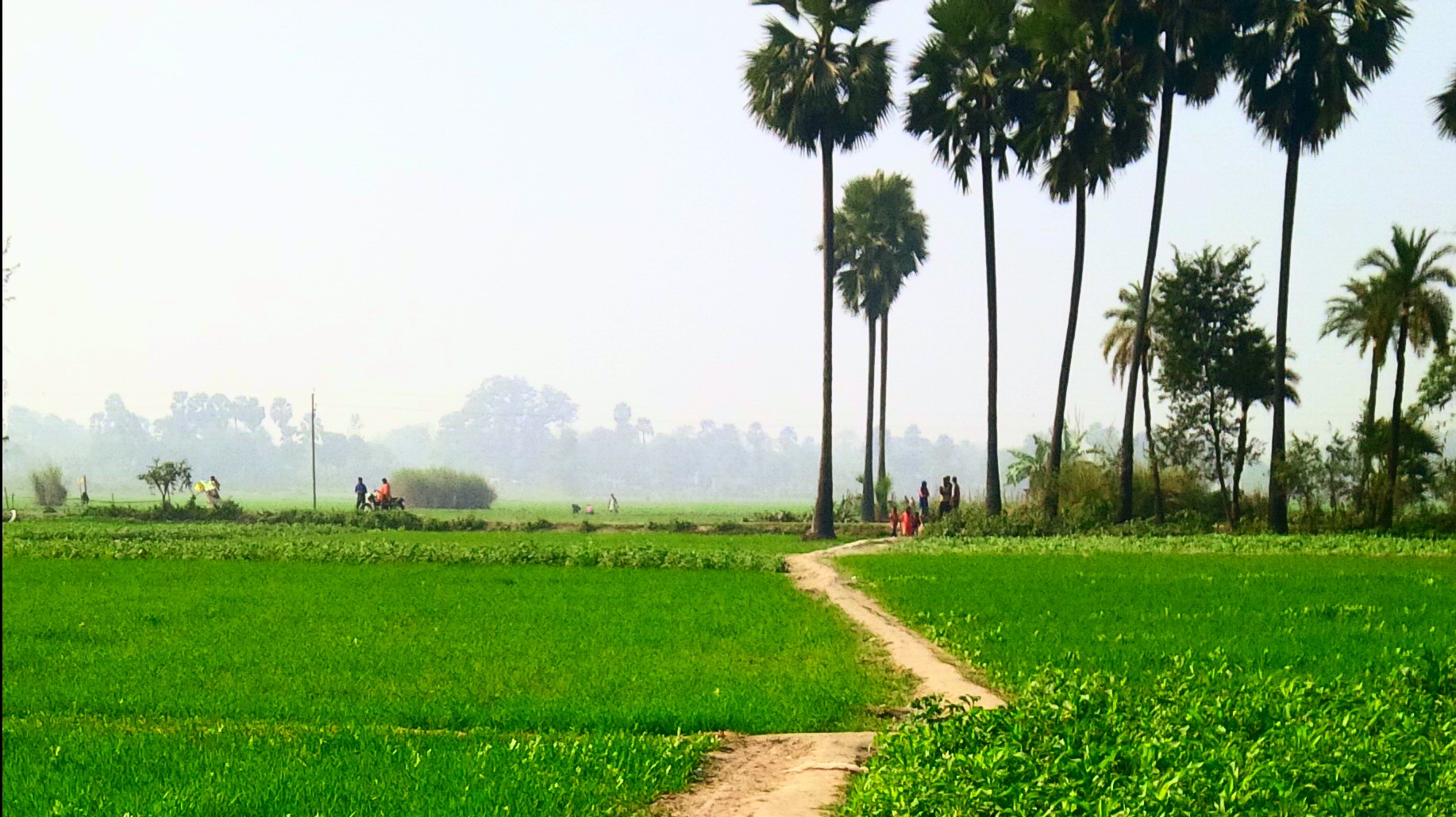 Crops Field in Mahammadpur Turi